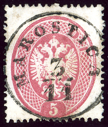 Stamp of Lombardy-Venetia, 5 soldi issue 1863, cancelled in 'MAROSTICA', Veneto Region, Italy. Mi16.